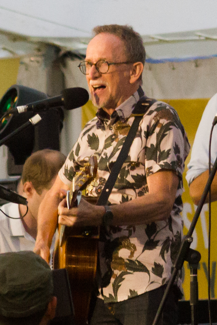 Graham Kendrick performing in the 'Tea Tent' at Big Church Day Out (BCDO) 2019, Wiston House, UK